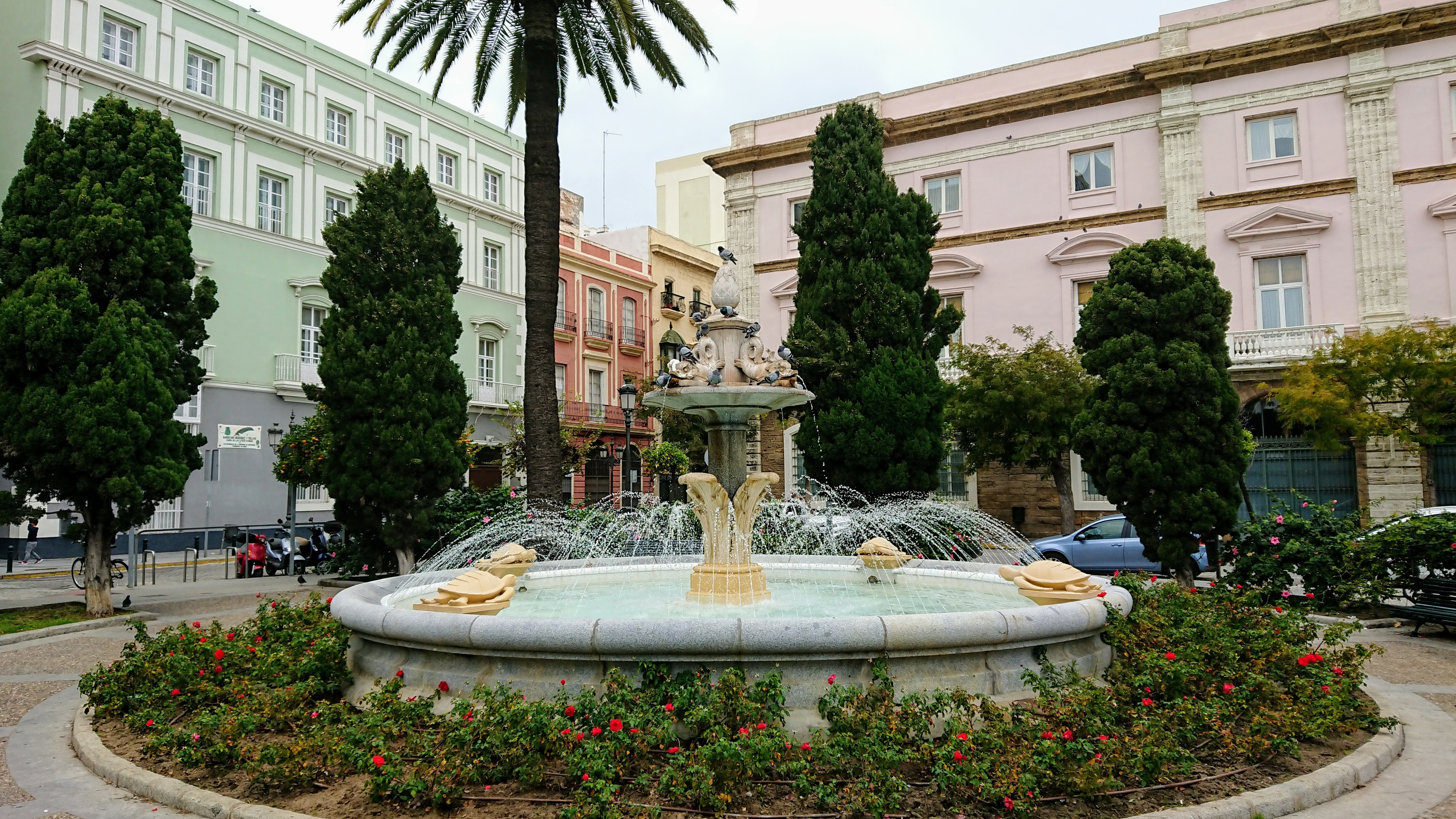 Plaza de las Tortugas, Cadiz (Spain)